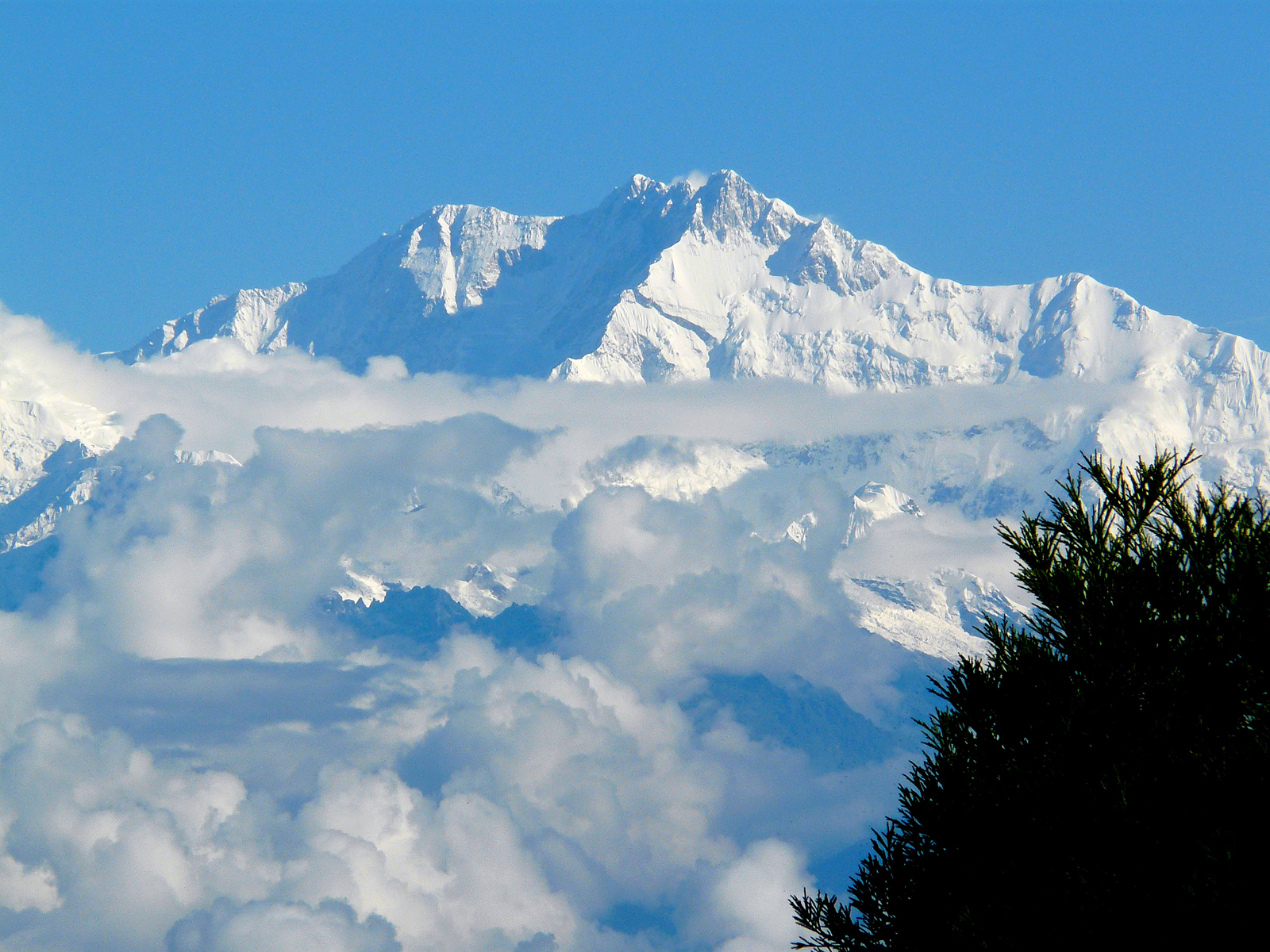 Kanchanjunga peak of the Himalayas from Darjeeling